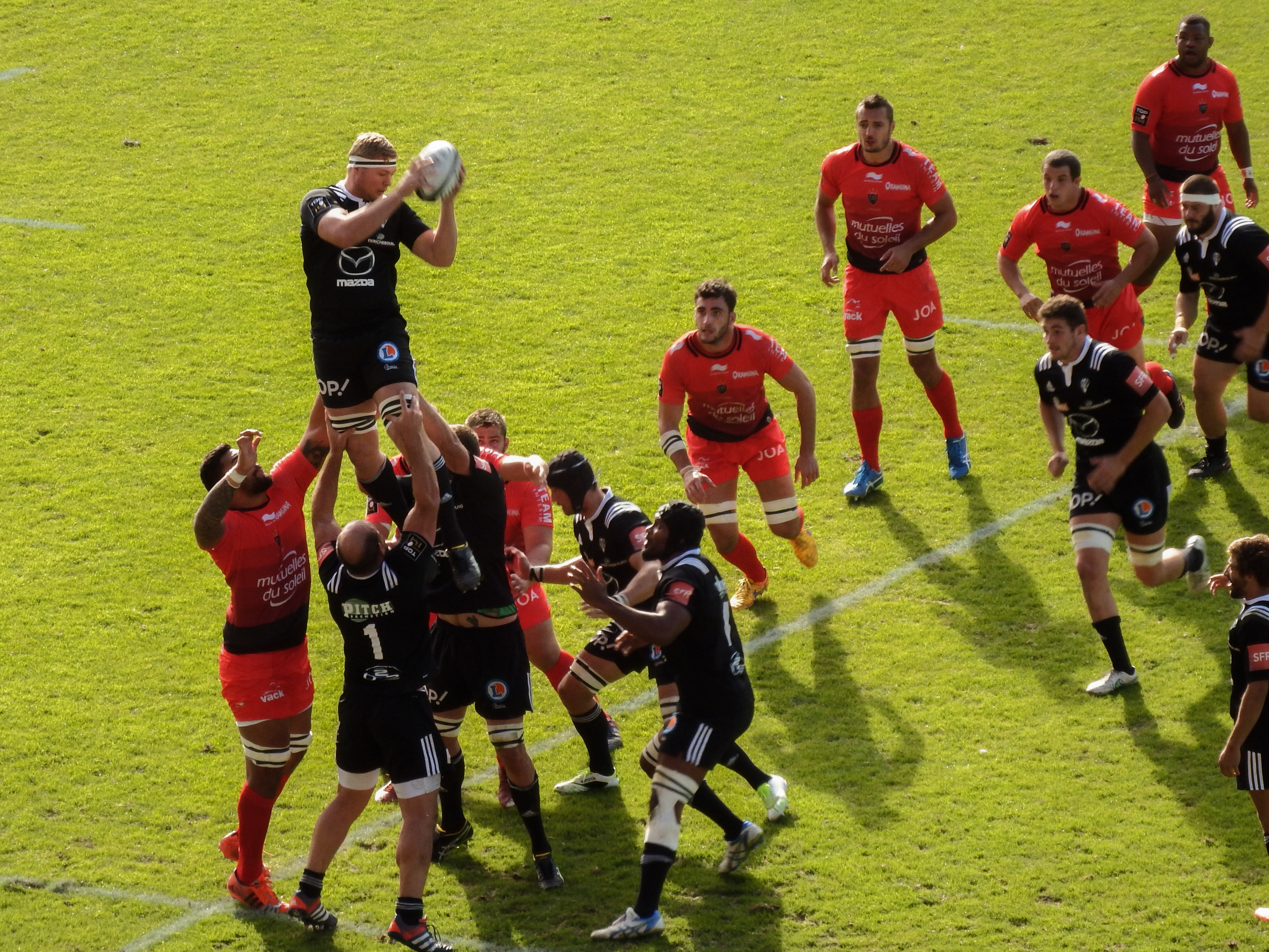 2015–16 Top 14 season — 17 October 2015, Stade Amédée-Domenech. Match between: CA Brive — RC Toulonnais